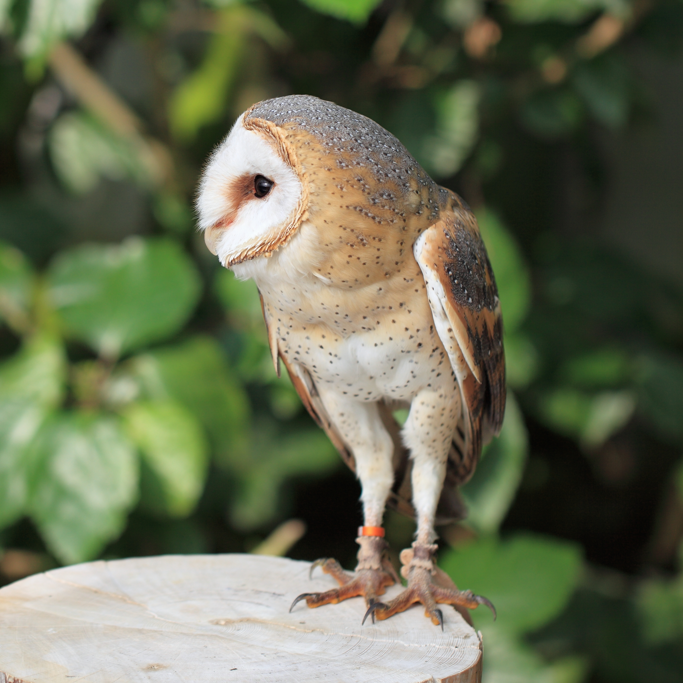 A Barn Owl in Kakegawa Kacho-en, Kakegawa, Shizuoka, Japan.